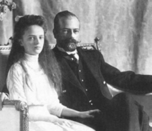 Princess Irina of Russia with her father Grand Duke Alexander Mikhailovich of Russia.